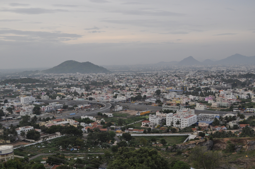 Salem aragalur sivan temple aragalur